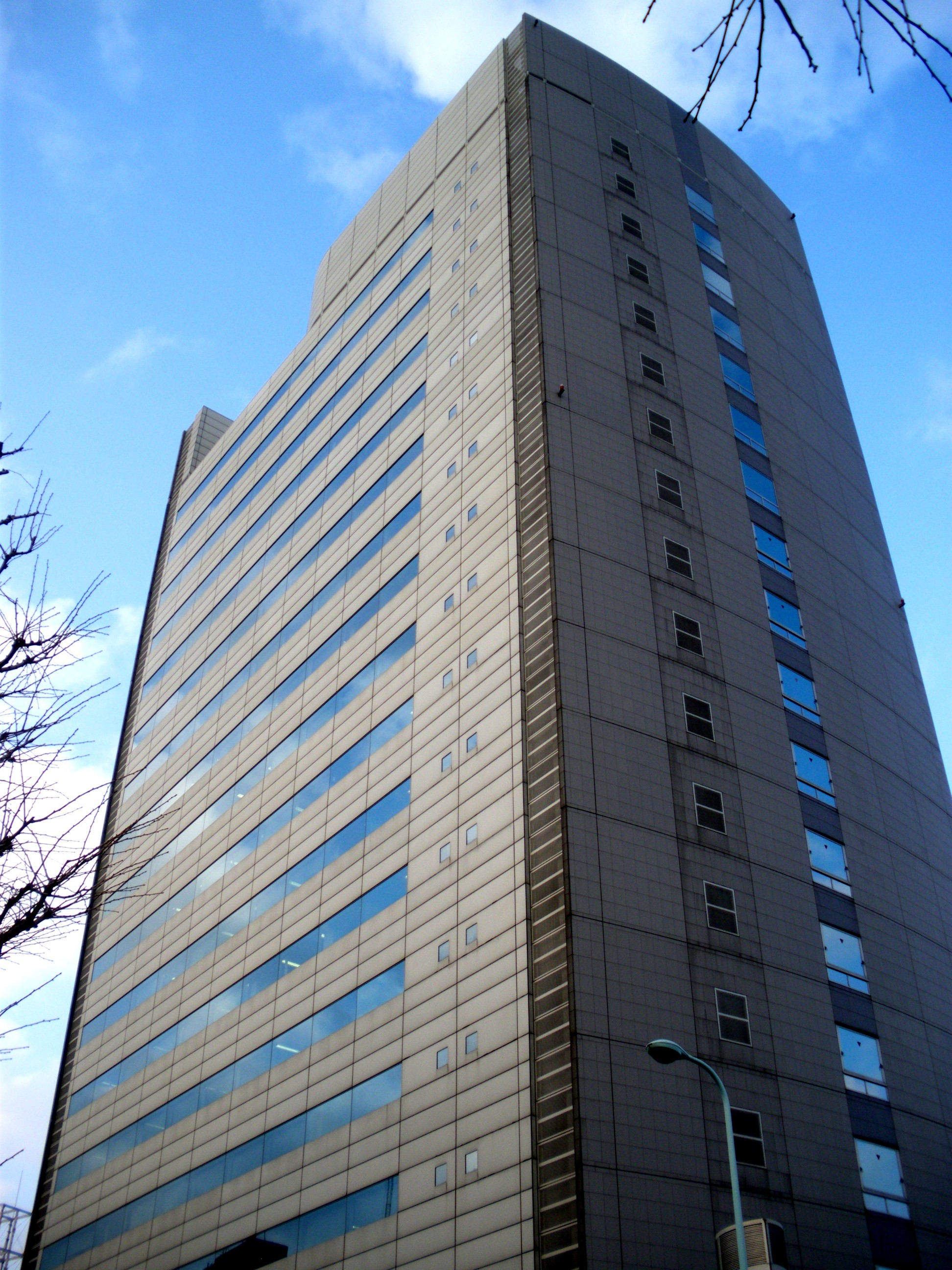 A photo of Sasazuka NA Building,Sasazuka,Shibuya-ku,Tokyo.